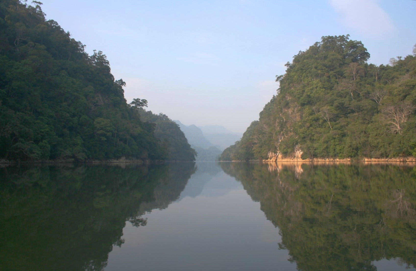 Photograph of Ba Bê Lake in Ba Bê National Park in Bắc Kạn Province, Northeast Vietnam during the dry season taken by Rolf Müller